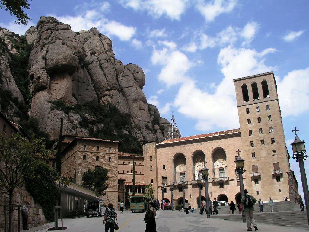 General view of the Monastery of Montserrat, in Catalonia, Spain